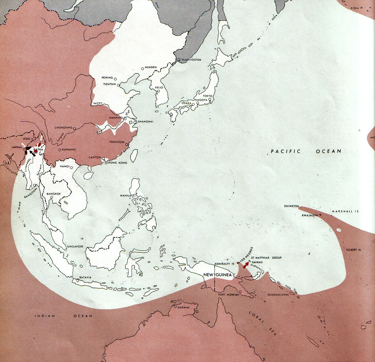 Map of the front against Japan as of 1 Apr 1944: This map is taken from the source "Atlas of the World Battle Fronts in Semimonthly Phases to August 15th 1945: Supplement to The Biennial report of The Chief of Staff of the United States Army July 1, 1943 to June 30 1945 To the Secretary of War". (See Cover, Forward and Map details)